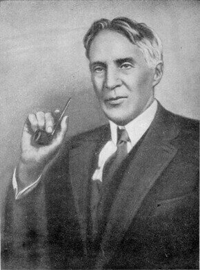 Robert Williams Wood, taken c.1910